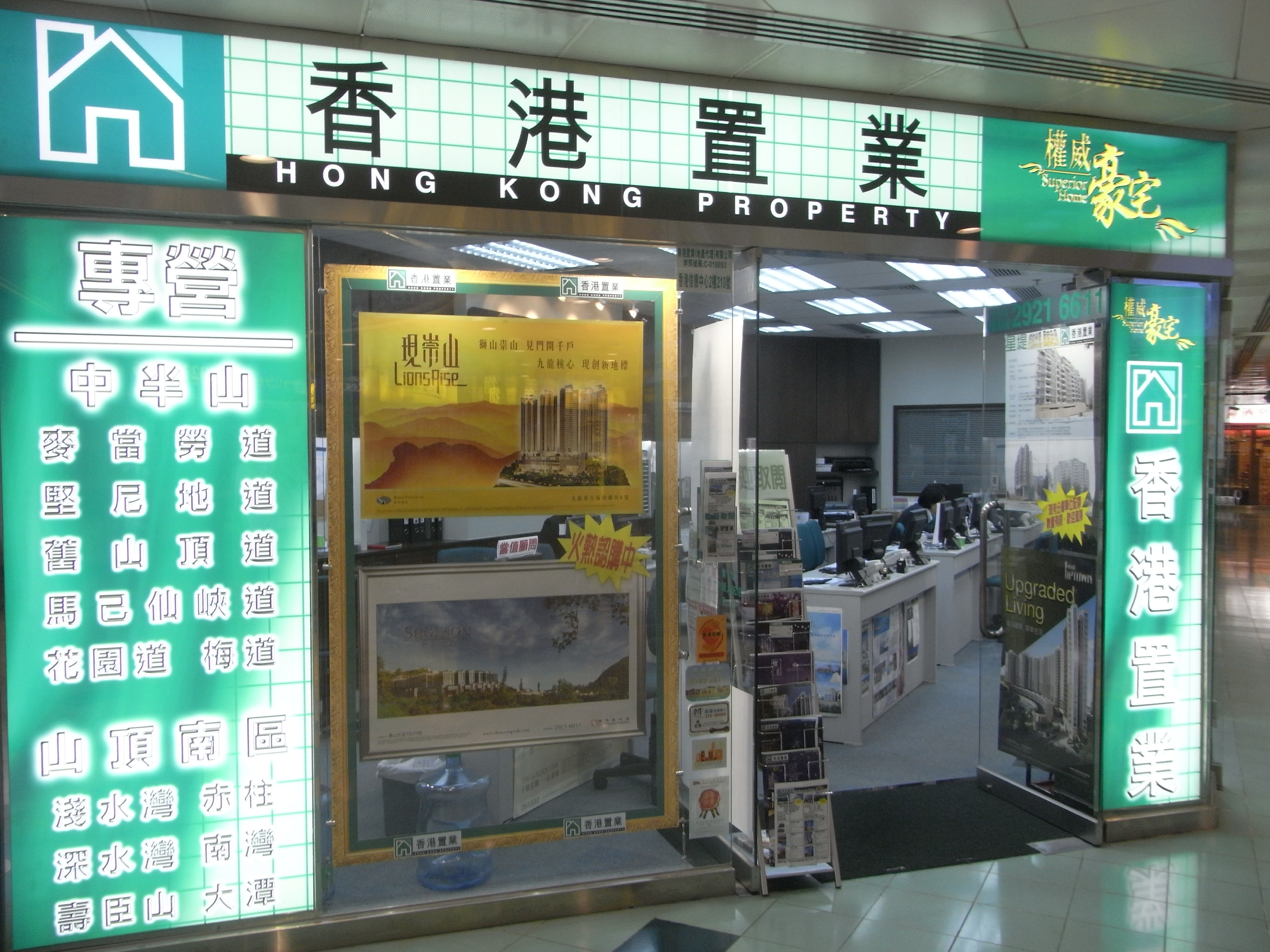 上環信德中心香港置業